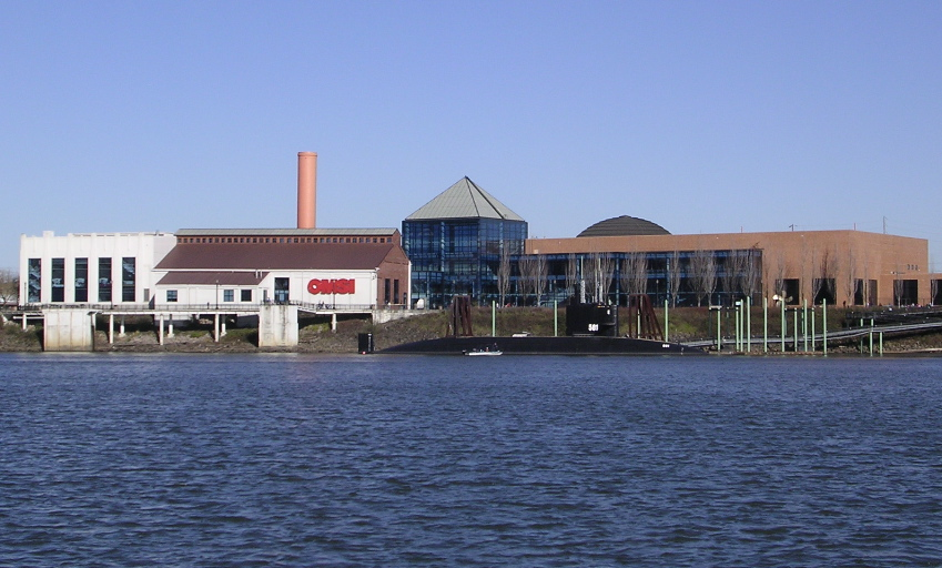 The Oregon Museum of Science and Industry, as seen from the west bank of the Willamette River. The USS Blueback (SS-581) is in the foreground. Taken by User:Cacophony on February 21, 2005.